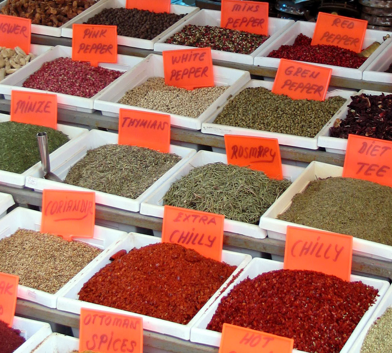 Spices in market on way to Antalya harbour, Turkey. May 2006. Photo by Winstonza talk